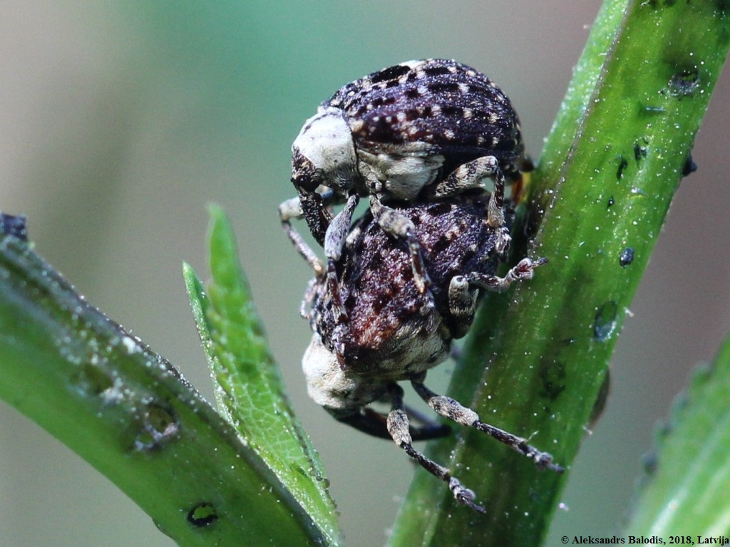 Cionus scrophulariae